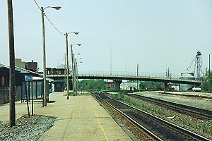 Alliance Amtrak Station looking west towards Chicago